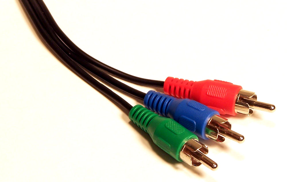 Component video cable with 3 RCA connectors.